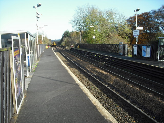 Heading for Edinburgh A train has just departed from Livingston South station.